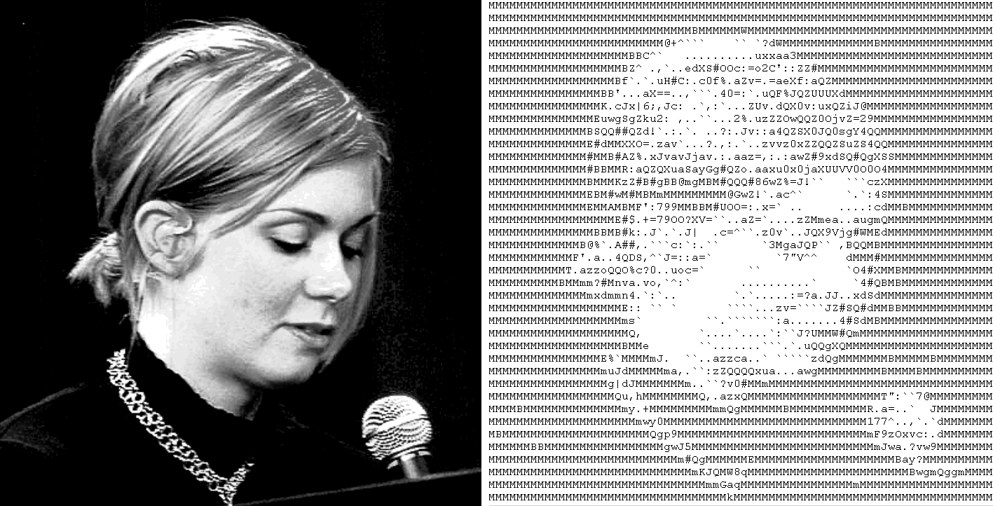 Photo automatically converted into ASCII art with Jave, a Java-based ASCII art editor.